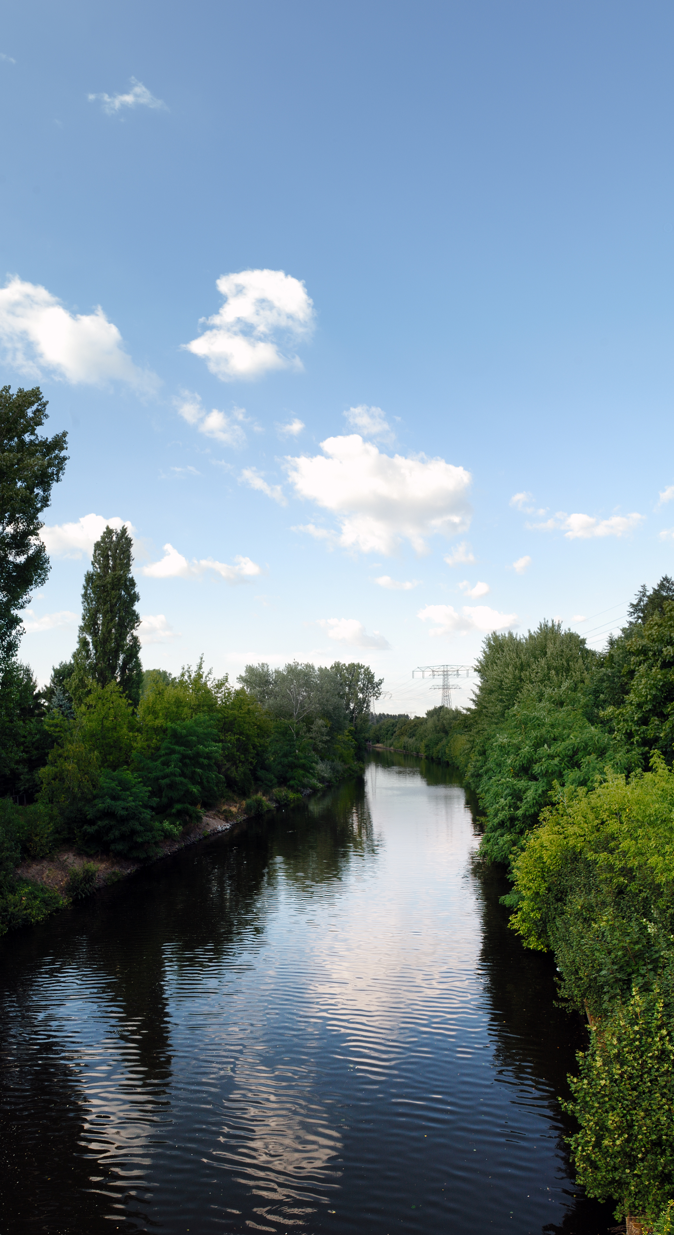 This image shows the Britzer Verbindungskanal ("Britz connection canal") in Berlin, Germany. It is a three segment panoramic image.